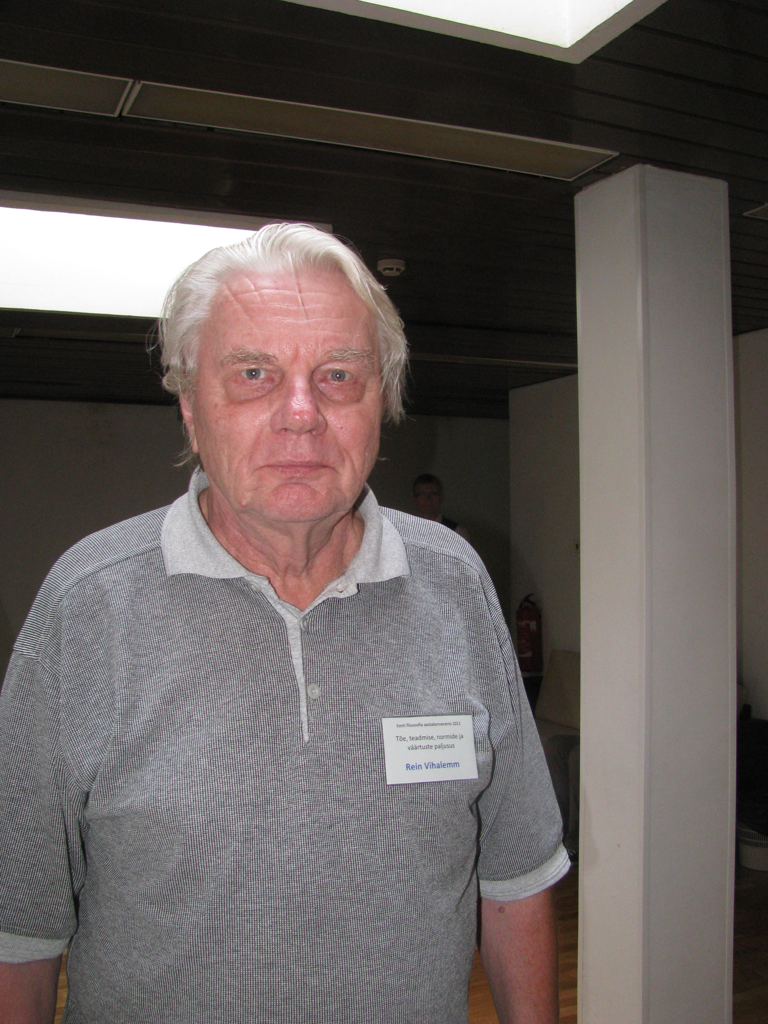 Rein Vihalemm Eesti filosoofia 7. aastakonverentsil Tartus